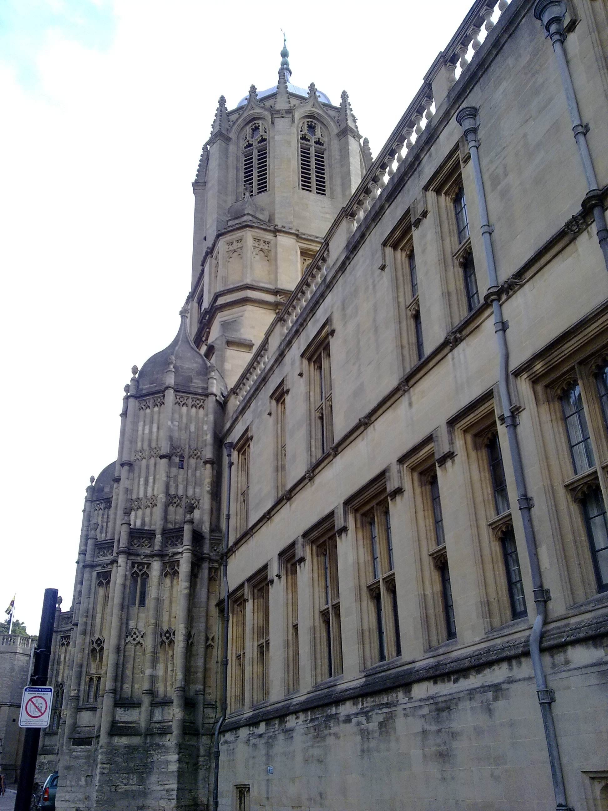 Tom Tower, Christ Church, Oxford, seen from St Aldate's Street